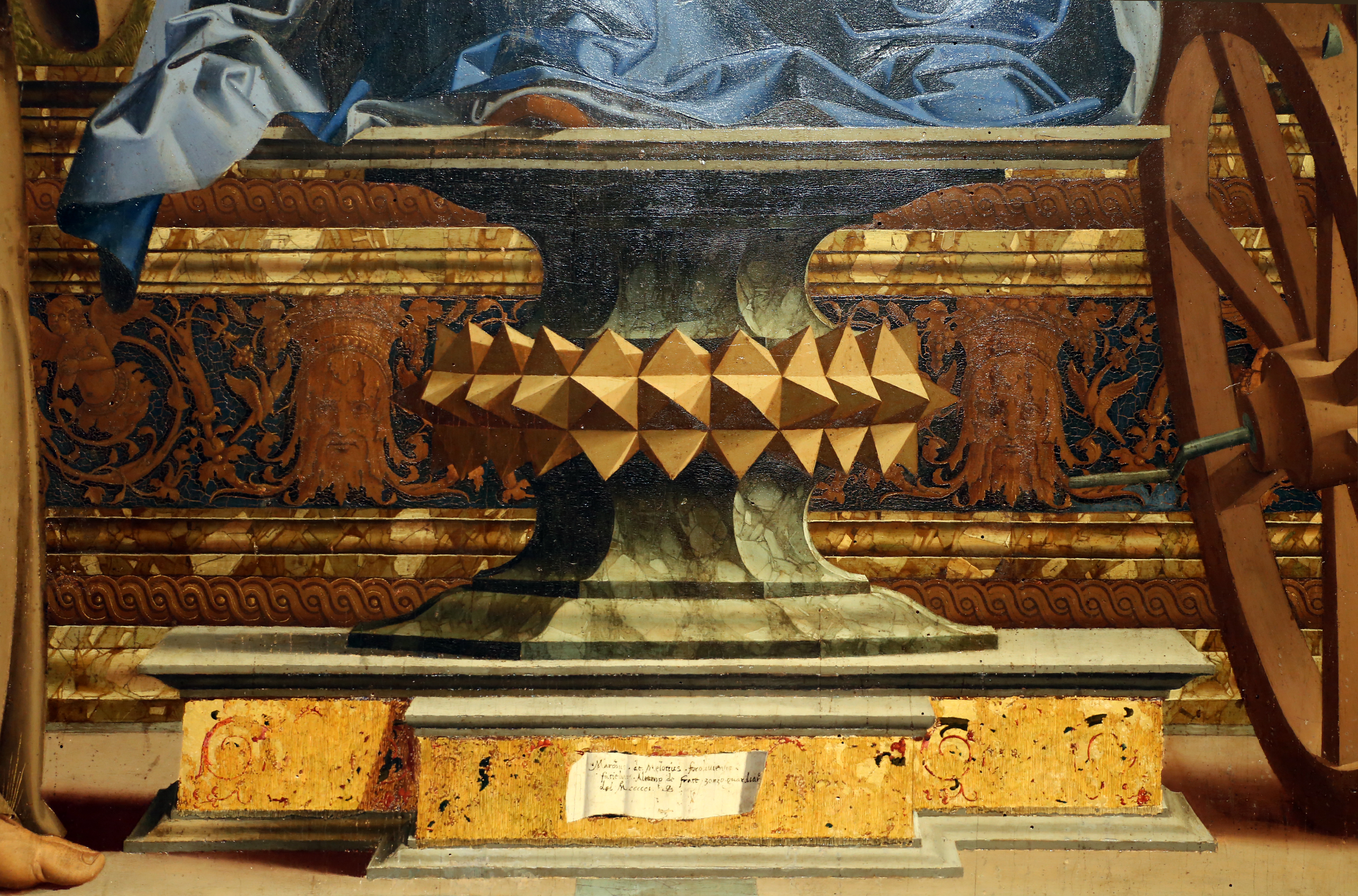 Matelica Altarpiece by Marco Palmezzano